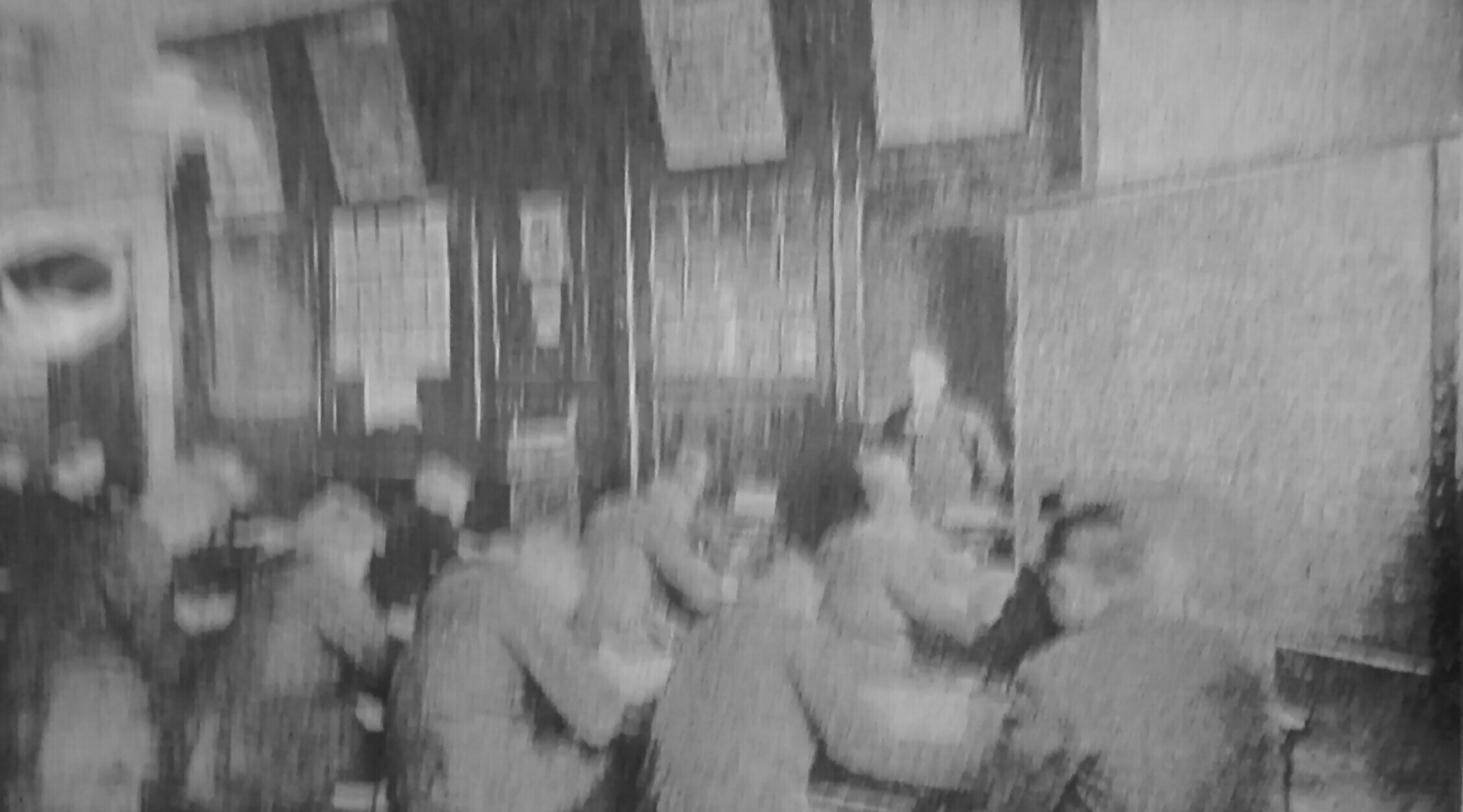 Old picture from children of the Sint-Gabriëlcollege in Boechout (Belgium). The author is unknown and the picture is older than 70 years.